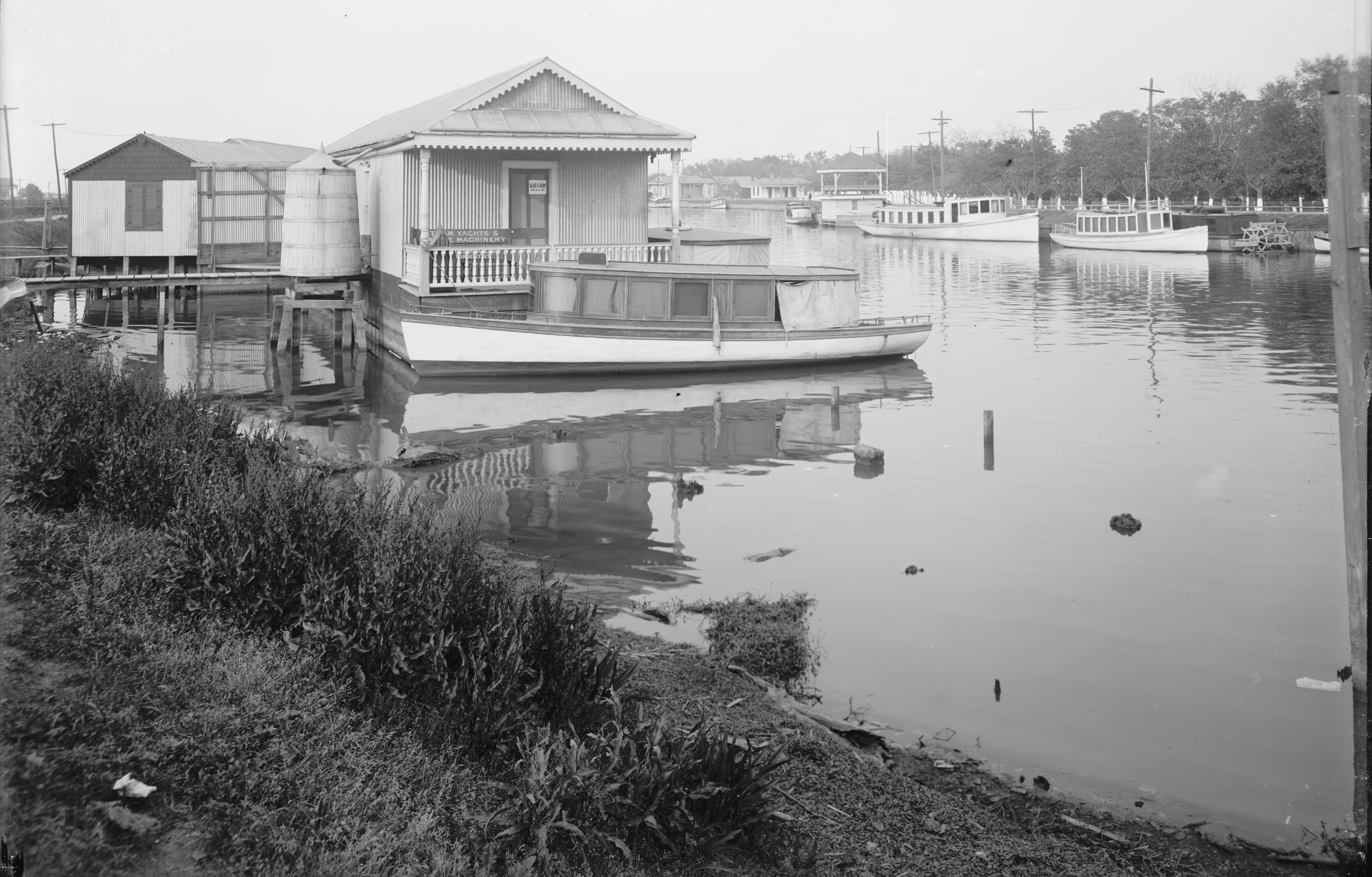 Along Bayou St. John, New Orleans, Louisiana. 1910. View shows the Bayou with boats, houses built on piers over the water; the house at left has a cistern. Warning The original file has a large number of pixels and when opened at full resolution, may either not load properly or cause your browser to freeze. These problems can be avoided by use of the ZoomViewer. Open in ZoomViewer